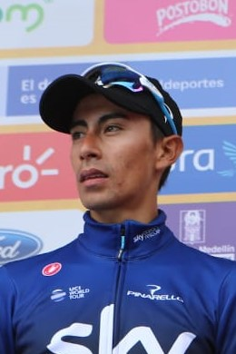 This image was clipped from Image:Foto del podio del Tour Colombia 2019.jpg